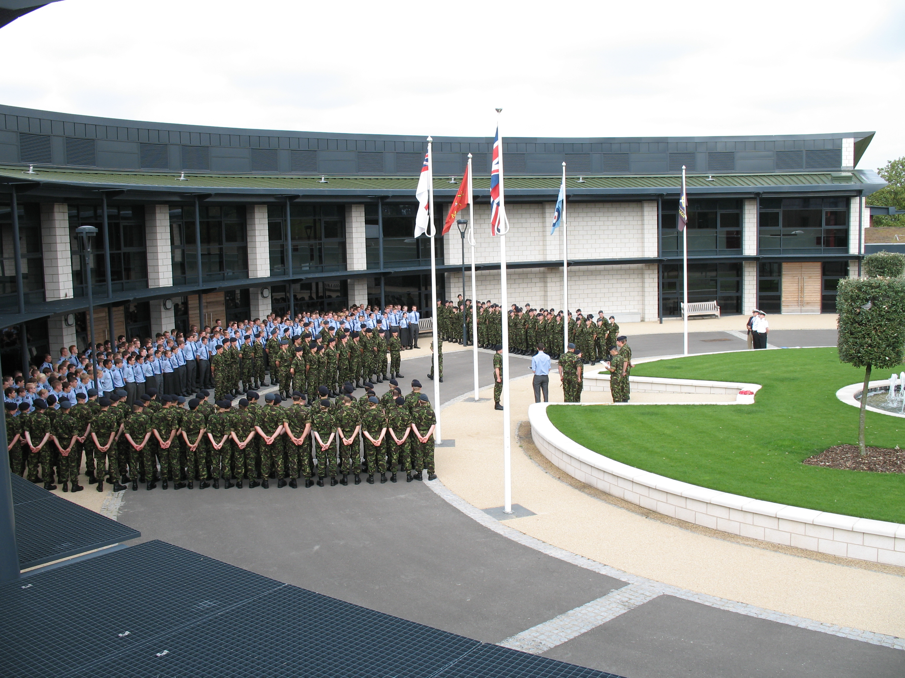 A parade at Welbeck College